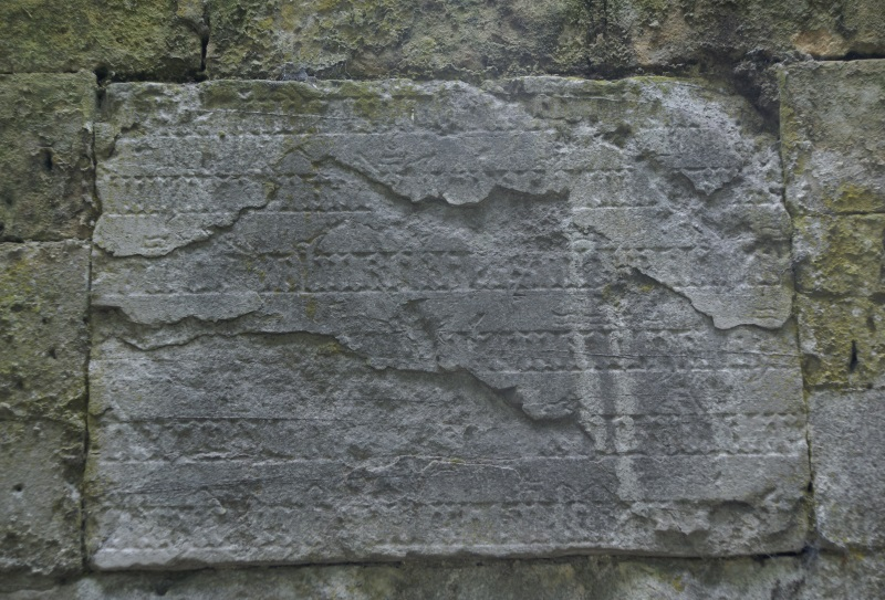 National monument no. 28017 - Haat en Nijd, Maastricht, The Netherlands. Name stone above entrance of upper casemate.